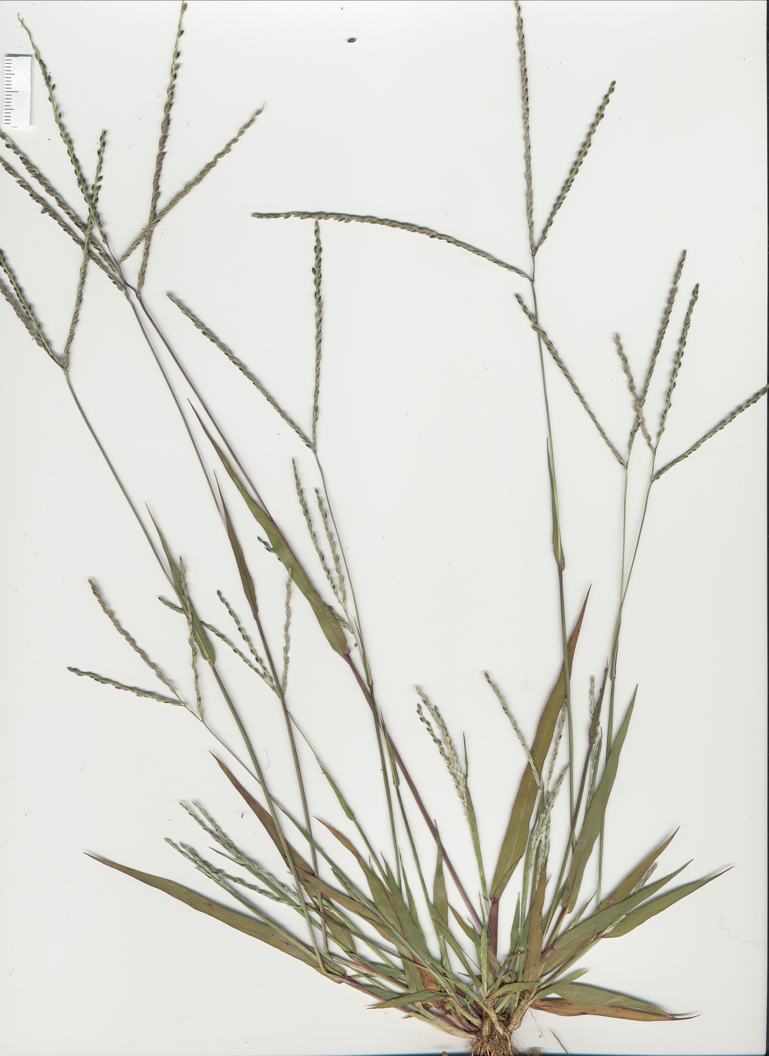 Digitaria ternata